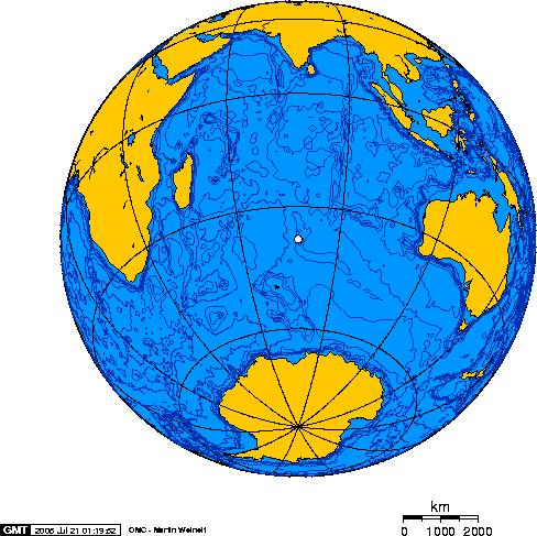 Orthographic projection centred over Ile Amsterdam